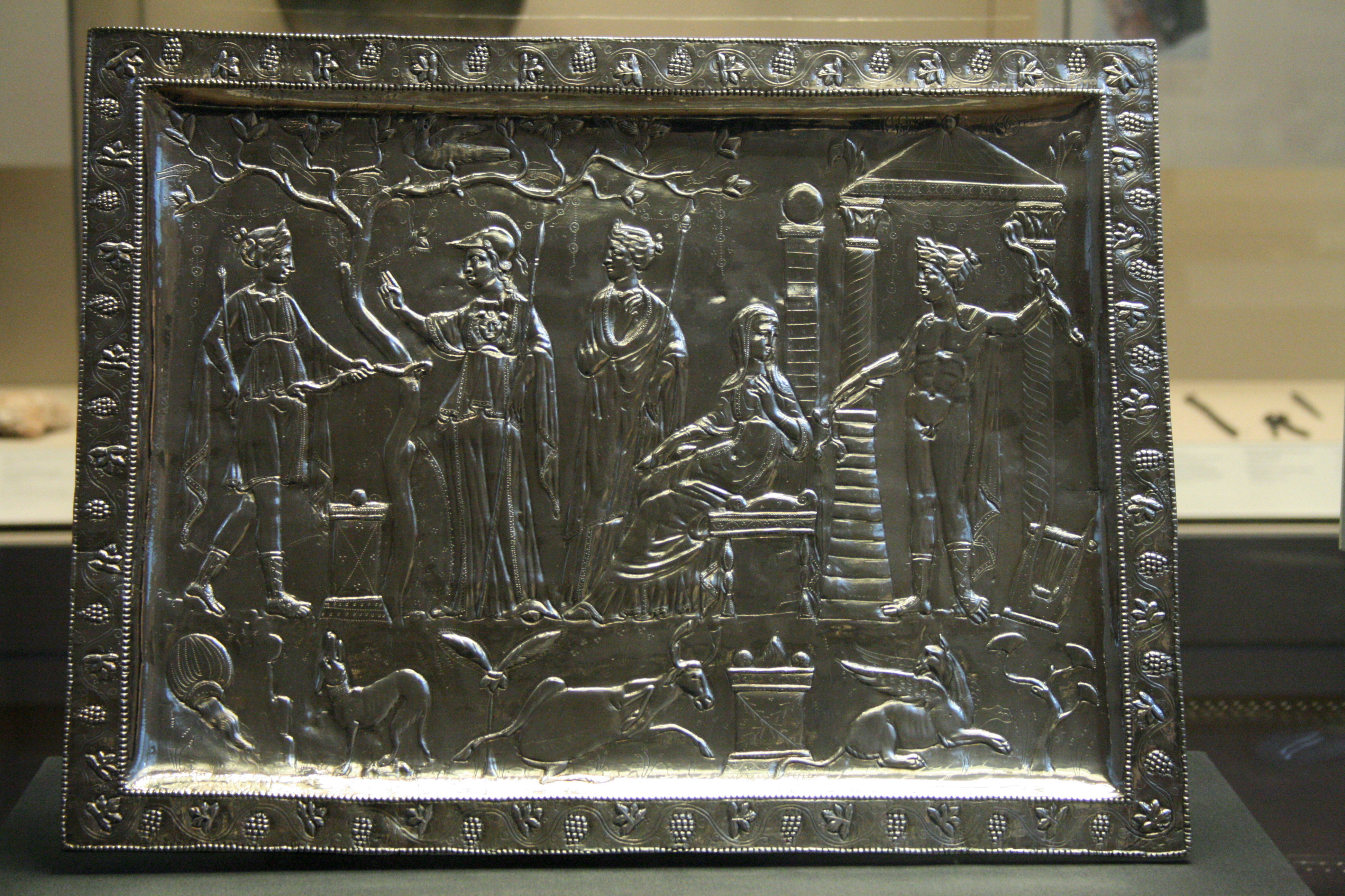 Corbridge Lanx, silver tray depicting a shrine to Apollo (4th century AD), found on the bank of river Tyne, at Corbridge, England. Probably part of a hoard. British Museum